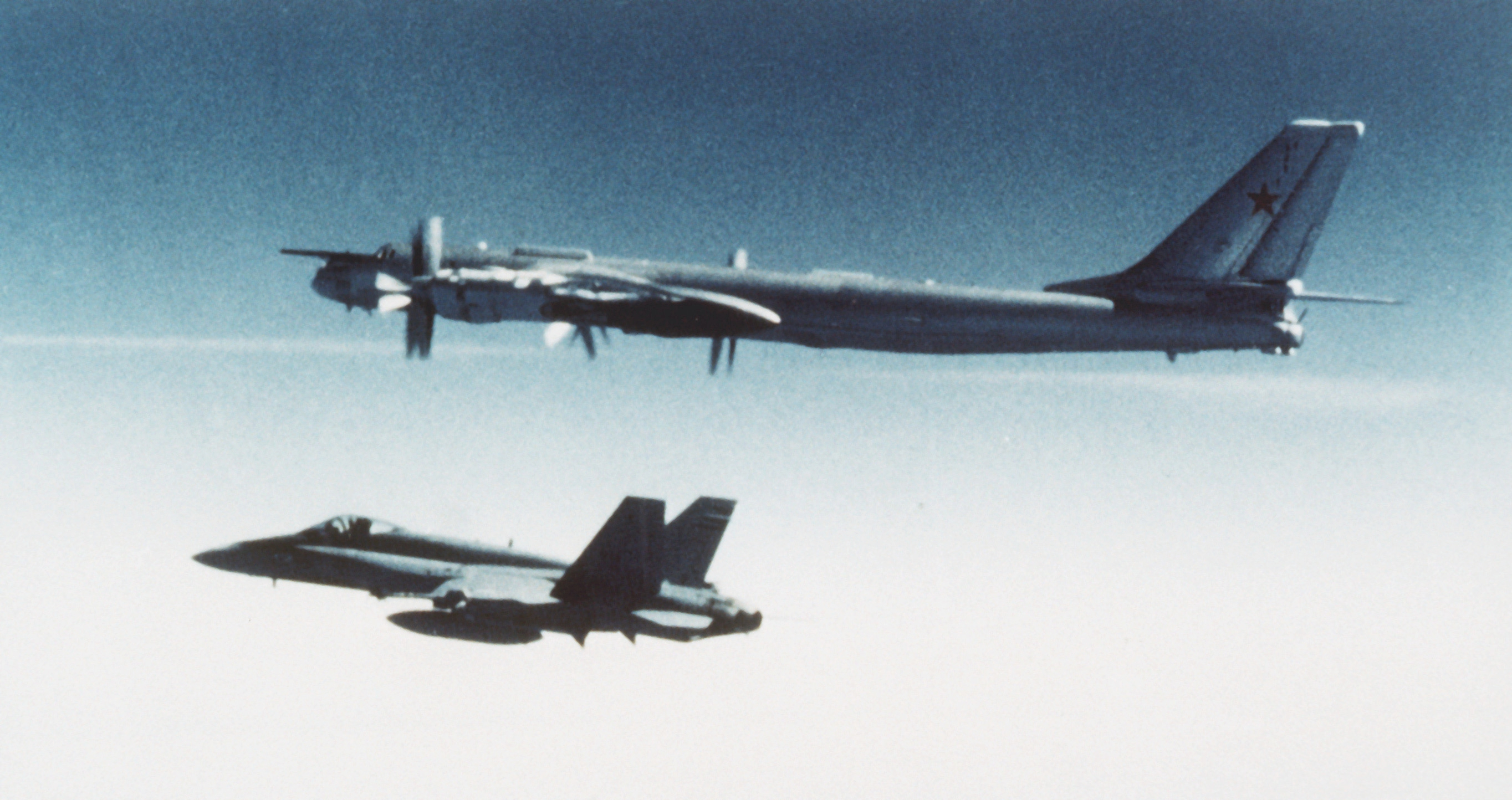 A Soviet Tu-95 aircraft (NATO reporting code: "Bear H") is being escorted by a Royal Canadian Air Force McDonnell Douglas CF-18 Hornet fighter in 1987.